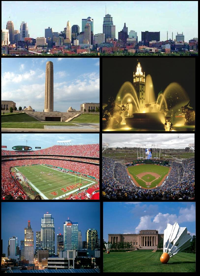 Montage of sites in Kansas City, Missouri - clockwise from top: 1. Kansas City skyline view from north 2. J.C. Nichols Fountain and Giralda Tower in the County Clib Plaza 3. Kaufmann Stadium - Kansas City Royals baseball 4. Nelson-Atkins Museum of Art 5. Kansas City skyline, evening view from south 6. Arrowhead Stadium - Kansas City Chiefs football 7. Liberty Memorial / National WWI Memorial